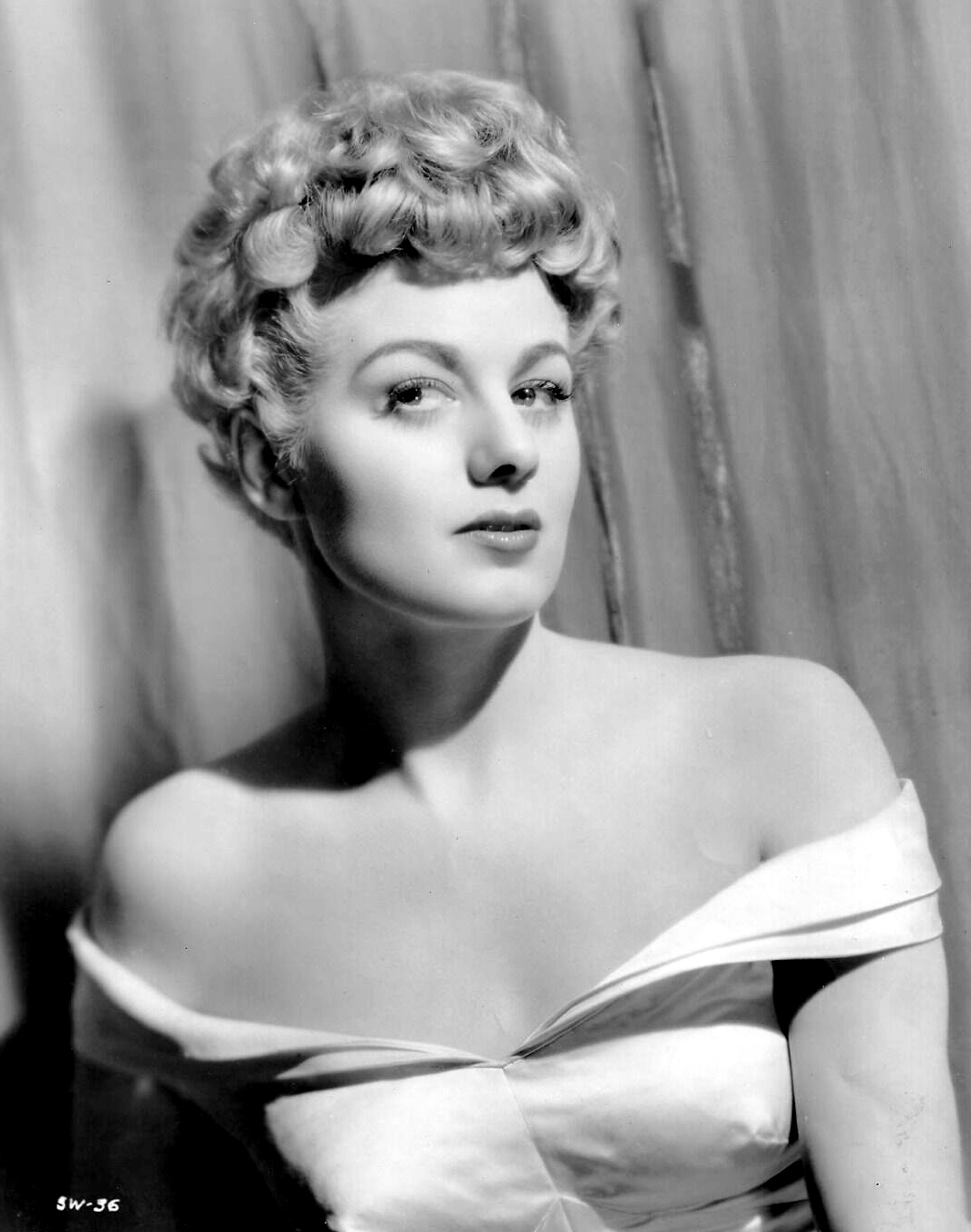 Publicity photo of Shelley Winters